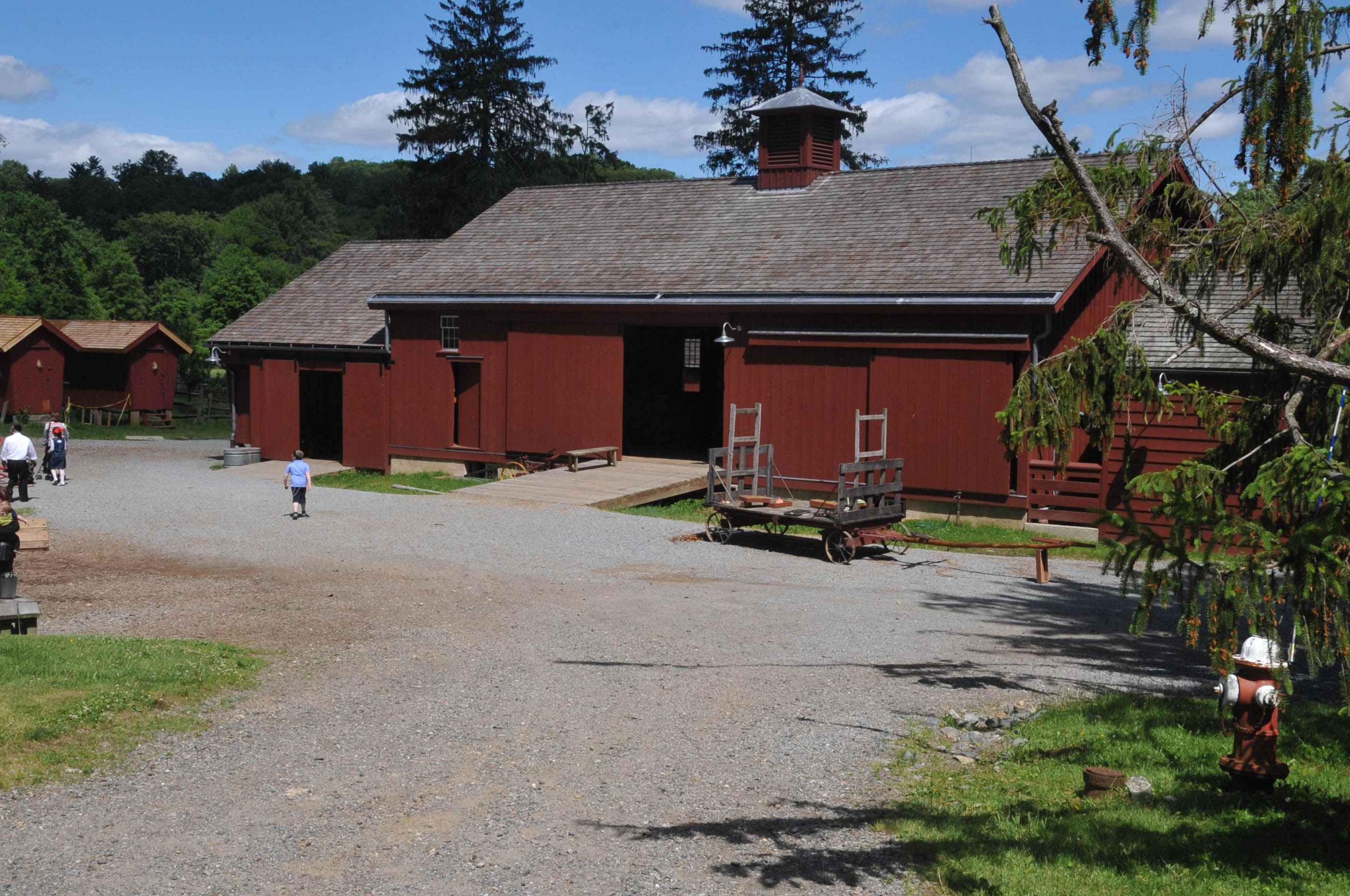 THIS IS A VIEWE OF THE BARN AND CARRIAGE HOUSE. ON THE LEFT ARE THE CORN CRIBS